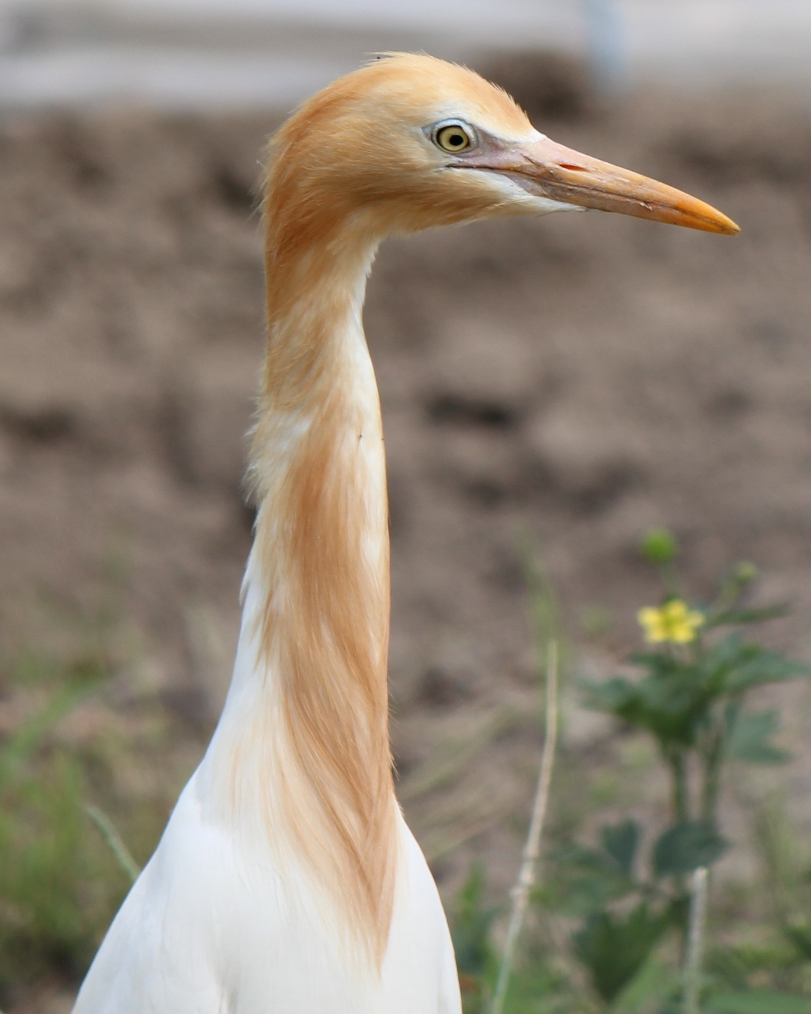 Bubulcus ibis coromandus (Cattle Egret), summer plumage in Japan